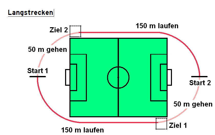 FIFA Fitness Test (long haul) for Referees and Assistant Referees